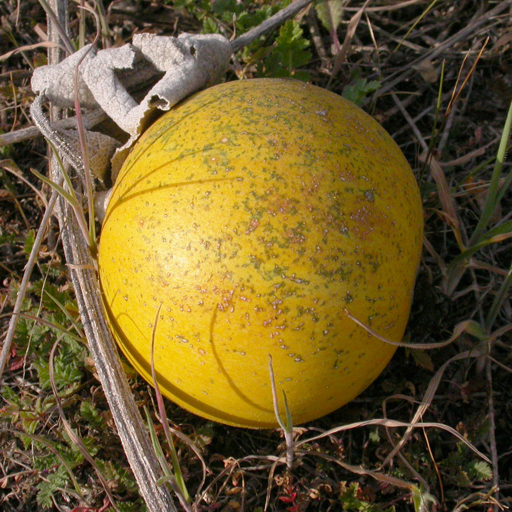 Cucurbita foetidissima — Calabazilla, chilicote, coyote gourd. In the Voorhis Ecological Reserve at California State Polytechnic University, Pomona, California.